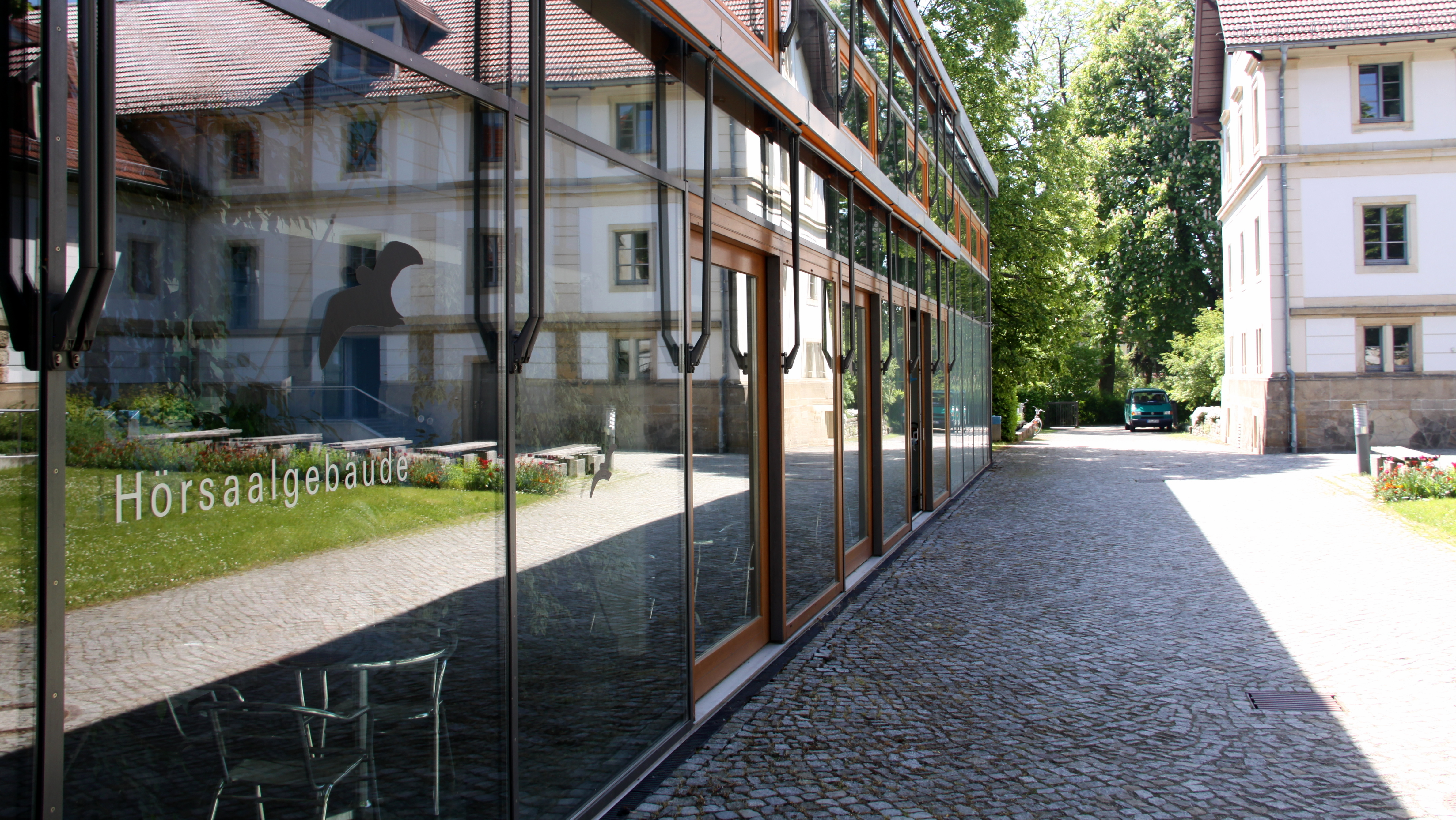 Auditorium of the Faculty of Agriculture / Landscape Management of the HTW Dresden Pillnitz